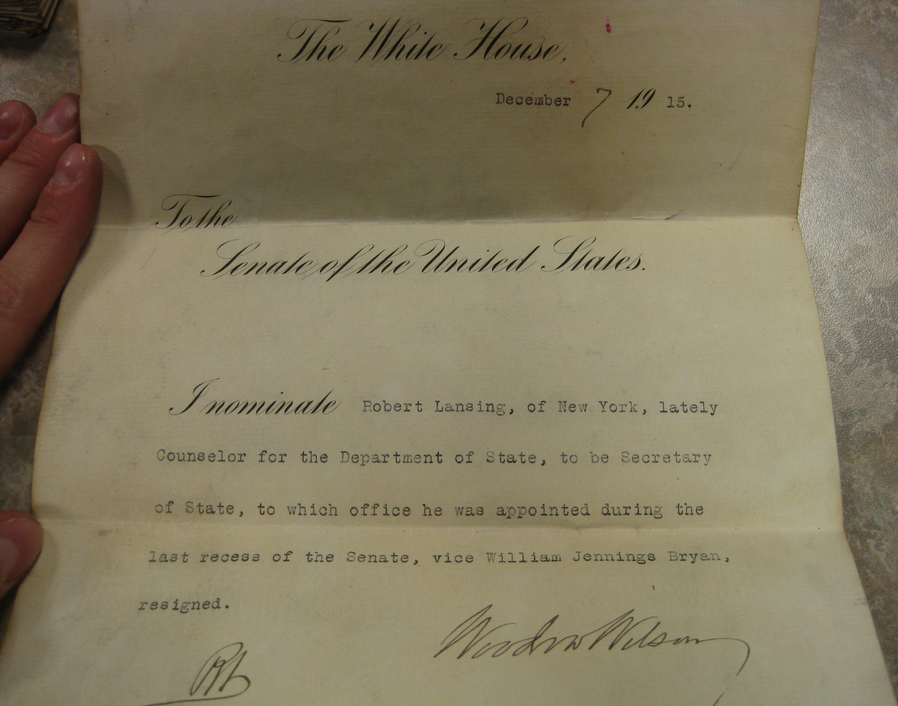 Woodrow Wilson's nomination of Robert Lansing to serve as Secretary of State. Courtesy of the National Archives and Records Administration.